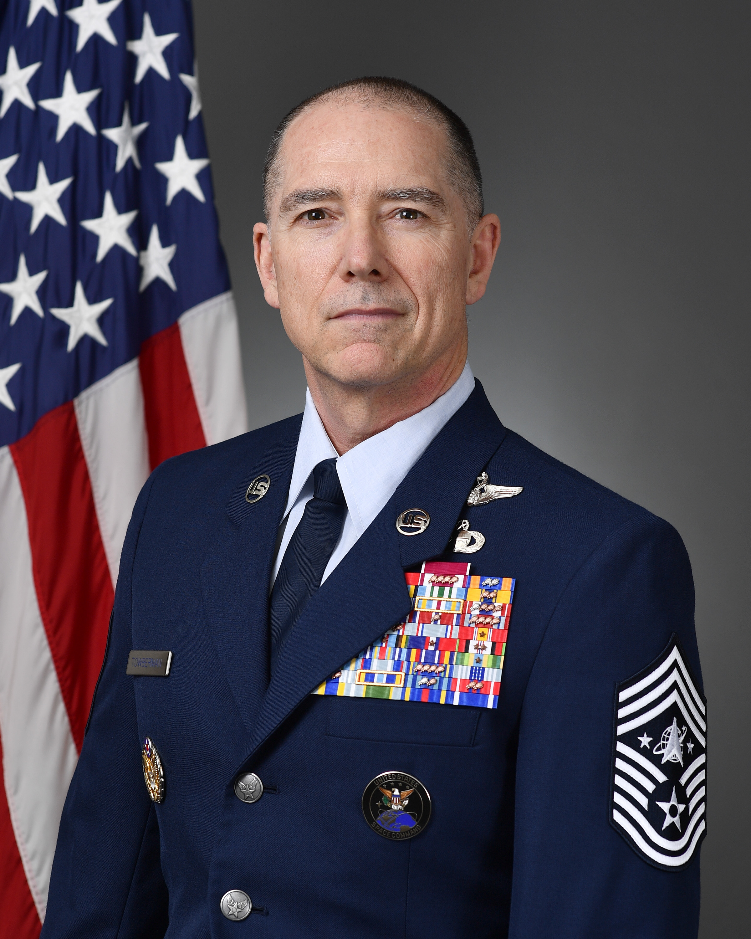 Roger A. Towberman as Senior Enlisted Advisor of the Space Force